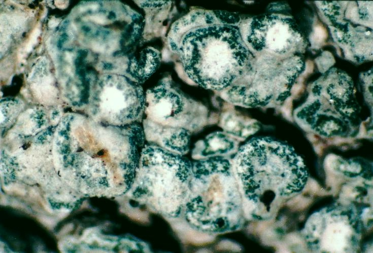 Pertusaria velata (Turner) Nyl., 1861 (photograph of a herbarium specimen taken through a dissecting microscope (x40) showing fruiting warts) Growing on bark of Red Maple in open woods at Pellston Campground, N side of Robinson Road, Emmet County, Michigan, USA; collected and identified by Richard Riefner (No. 81-269, 26 Jun 1981); specimen is now in the Lichen Herbarium of the New York Botanical Garden.